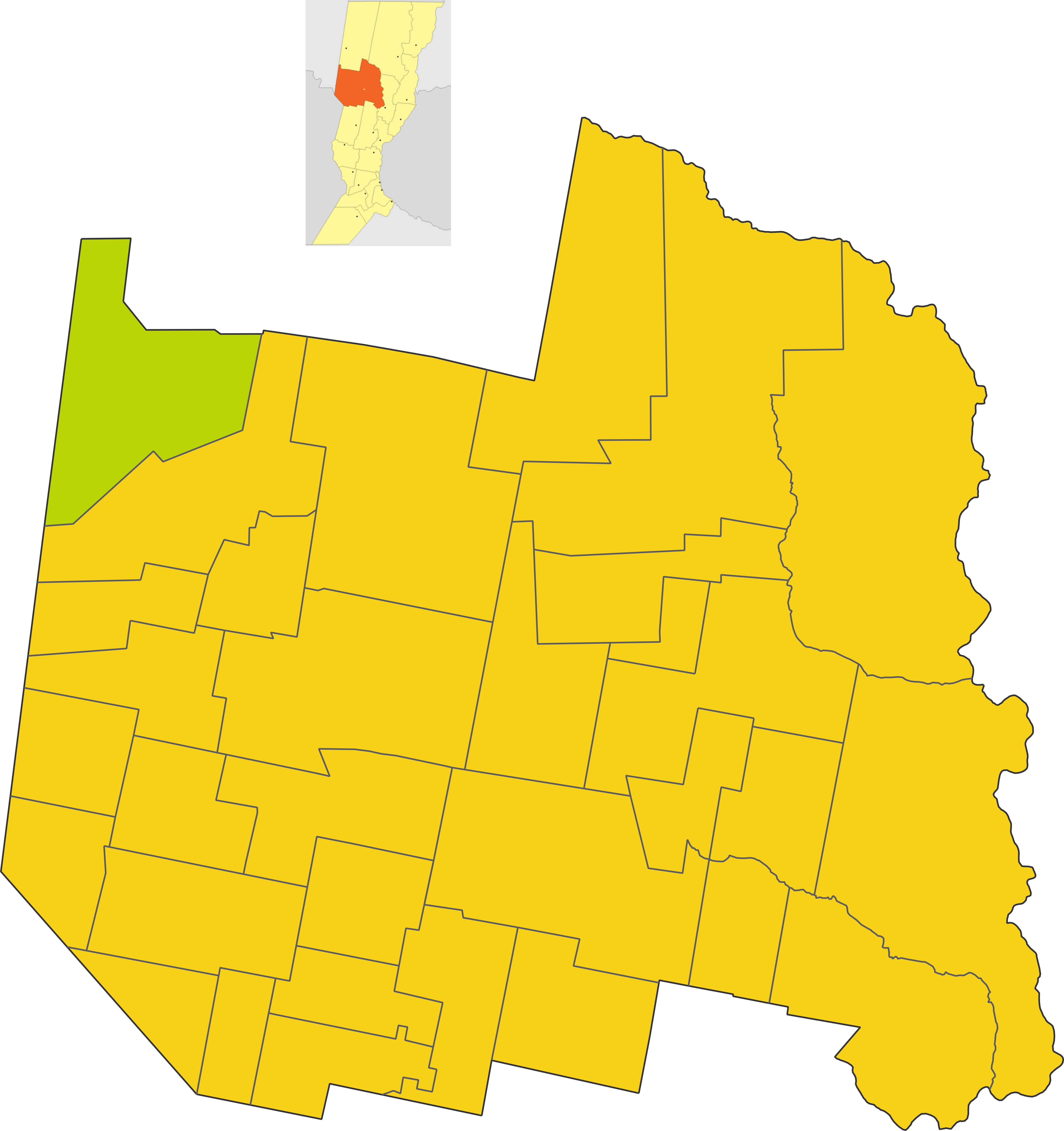 Map of the municipio de Ceres in San Cristobal department, Santa Fe province, Argentina